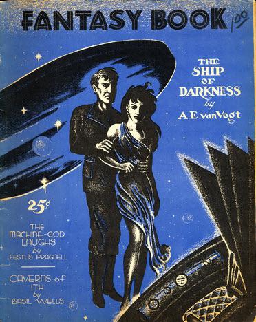 Cover, Fantasy Book, v1n2